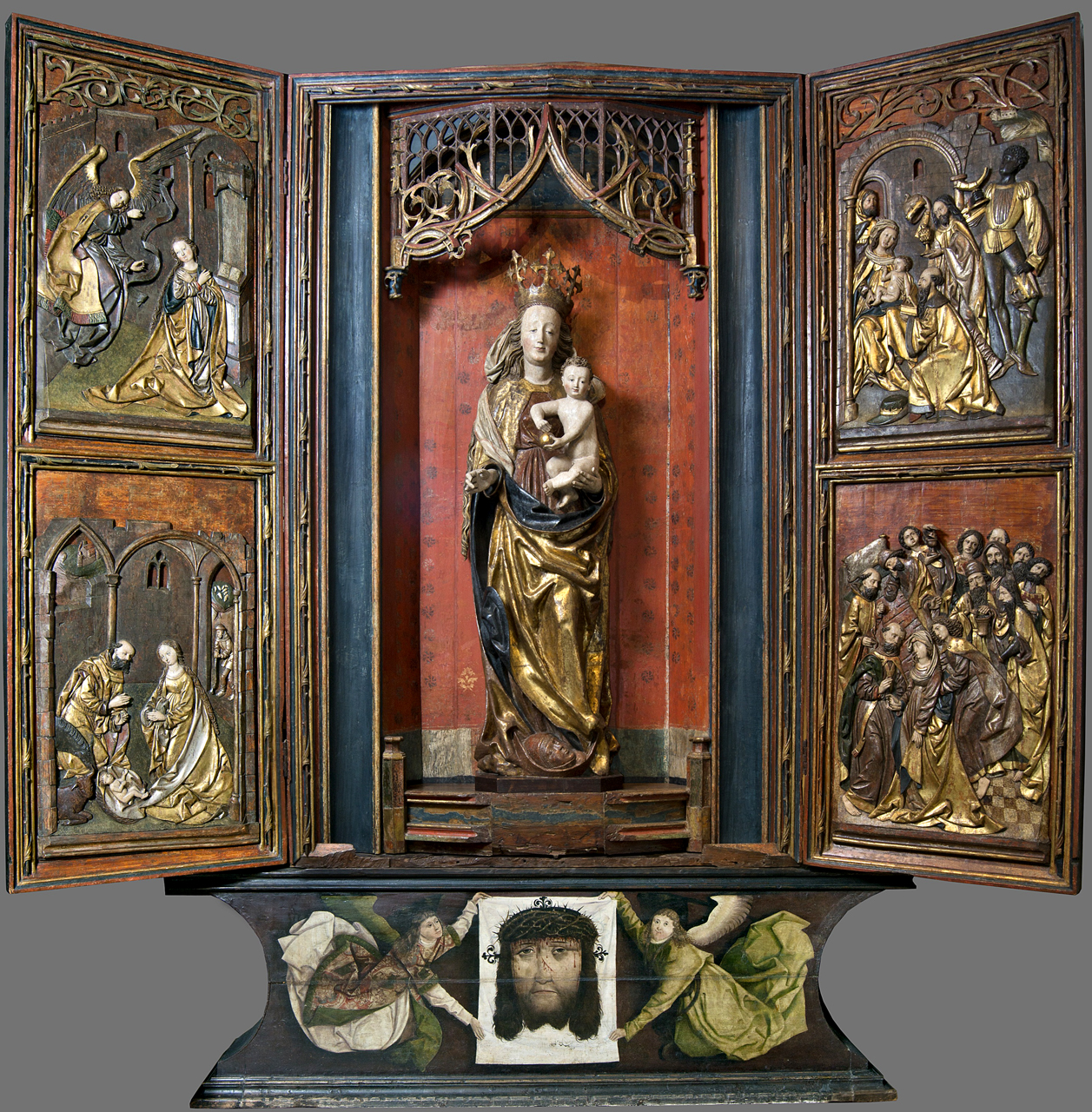 Gothic altarpiece from Velhartice (1490-1500), National gallery in Prague